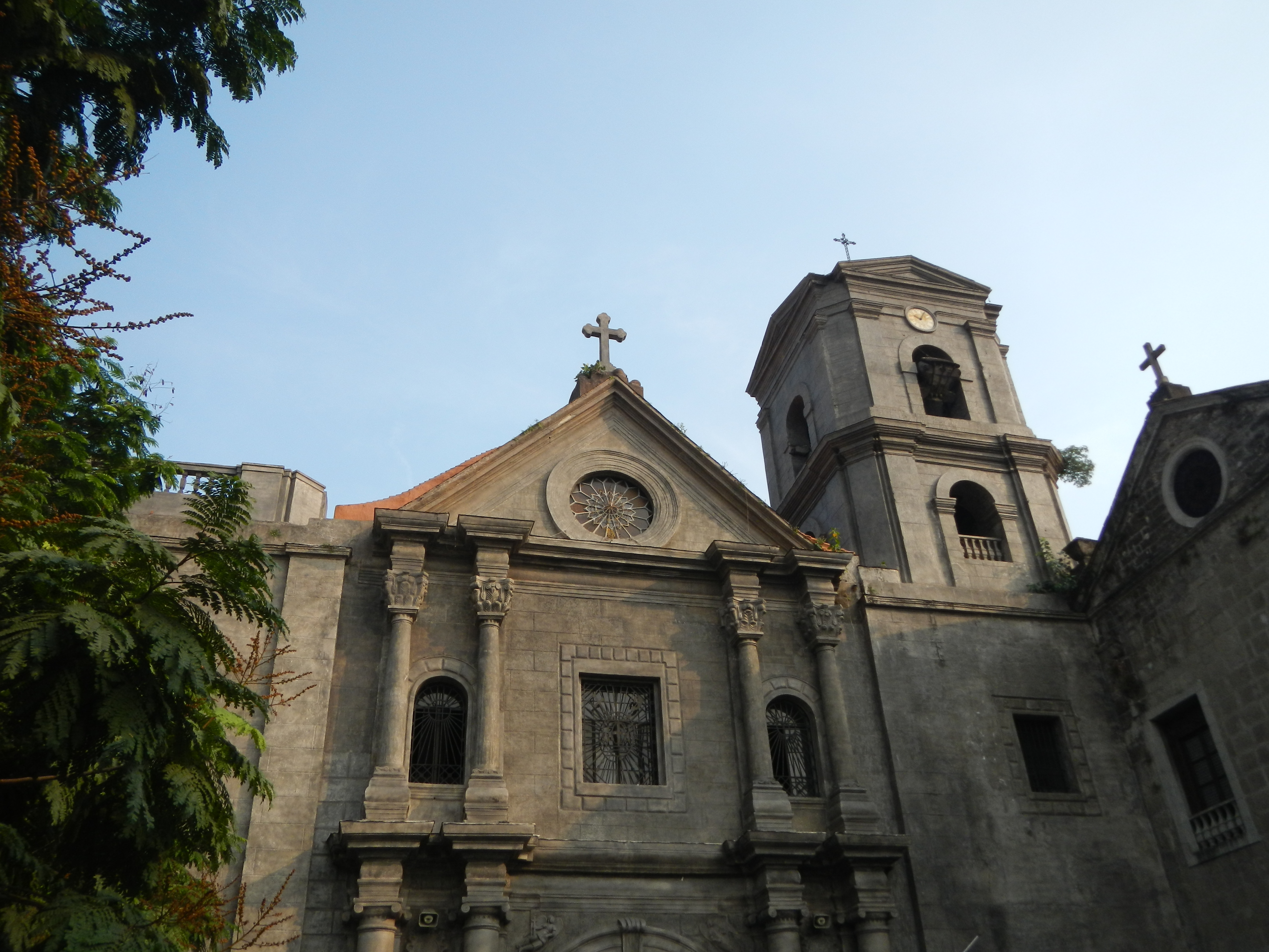 Intramuros (Casa Intramuros, Anda St., Catholic Bishops' Conference of the Philippines, 470 Genral Luna St., Ironcon Builders and Development Corporation building, San Agustin Church (Manila)).